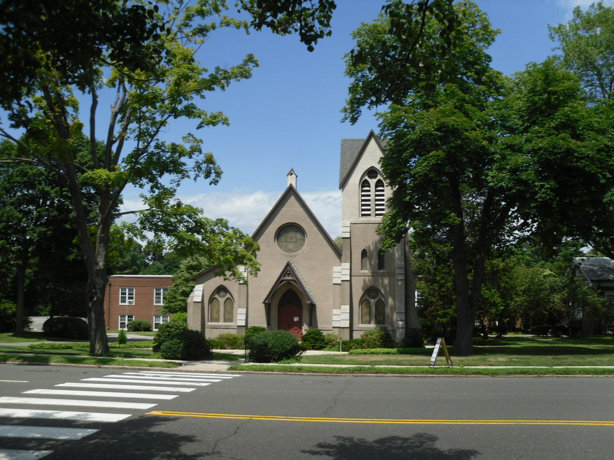 Built as the First Presbyterian Church of Darien, Connecticut, it now serves as chapel at Noroton Presbyterian Church.